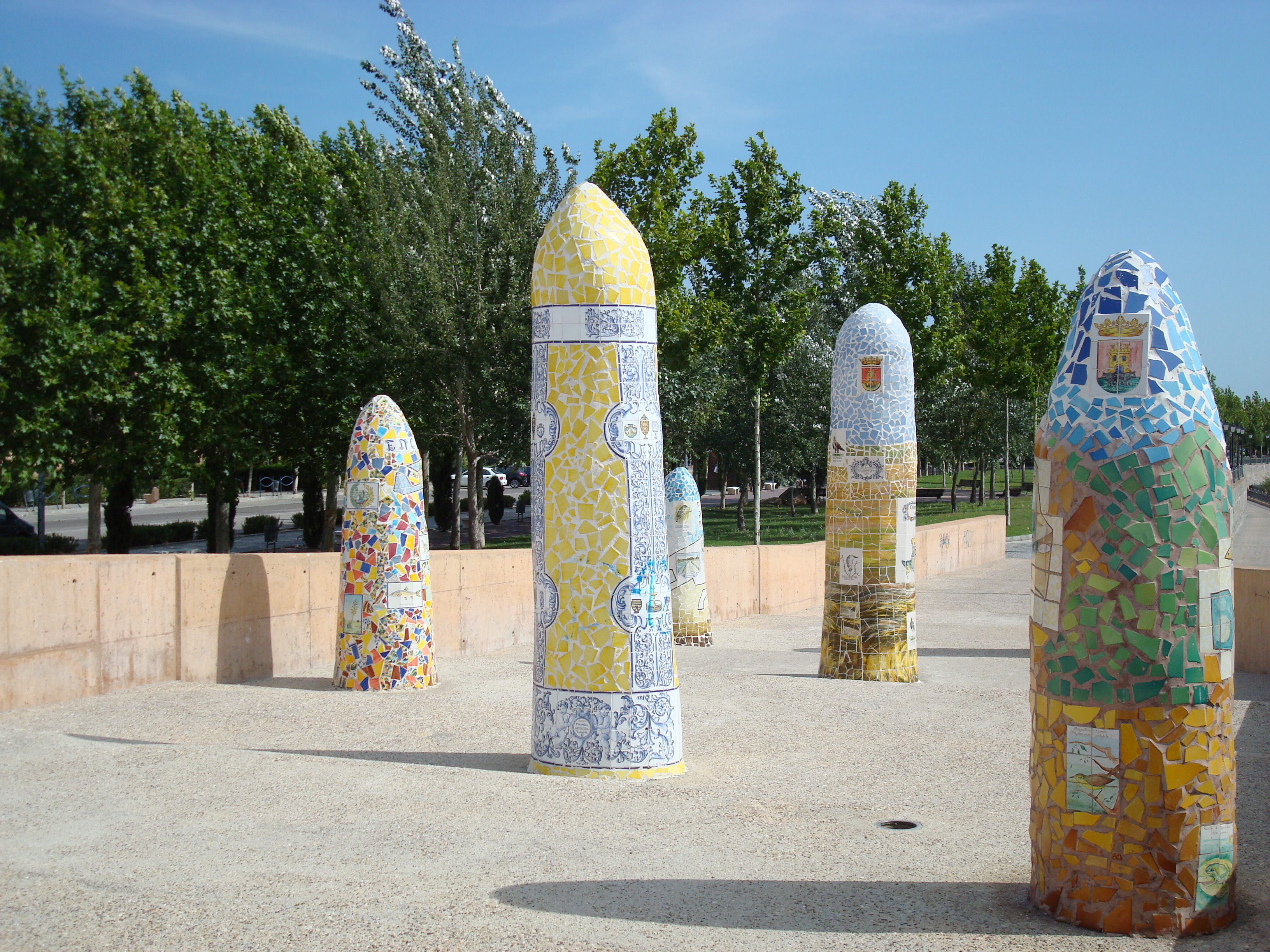 Ceramics stones in Talavera